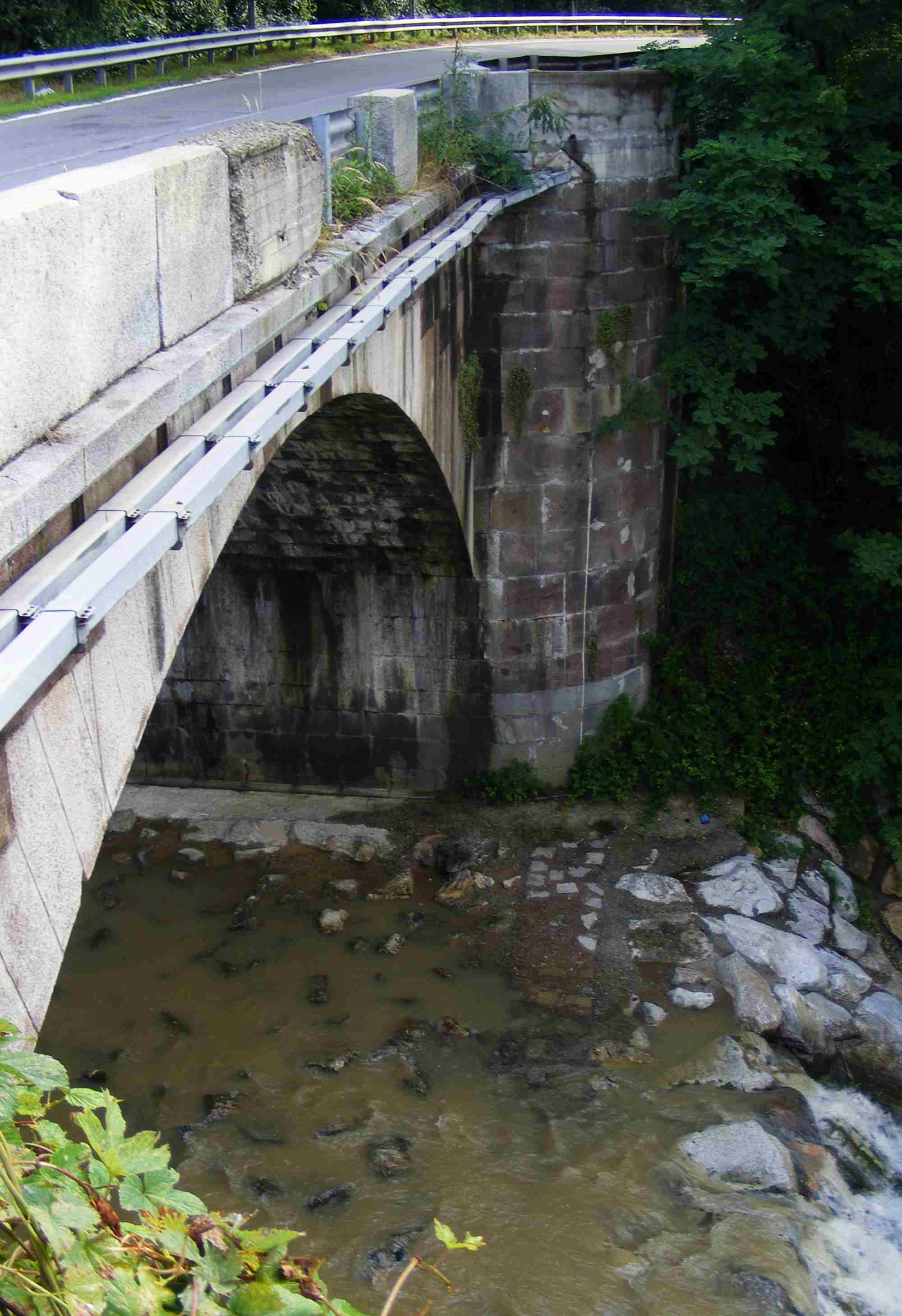 Bridge of the SP 142 Biellese on the Ostola creek (BI, Italy)